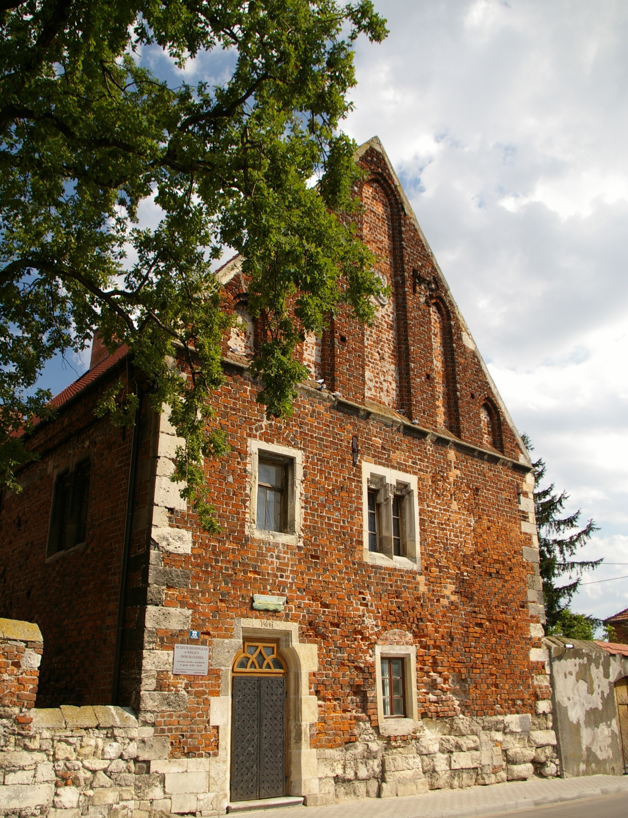 The presbytery called Długosz house in Wiślica, Poland